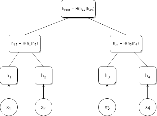 Binary hash tree with 4 input in hash chain.